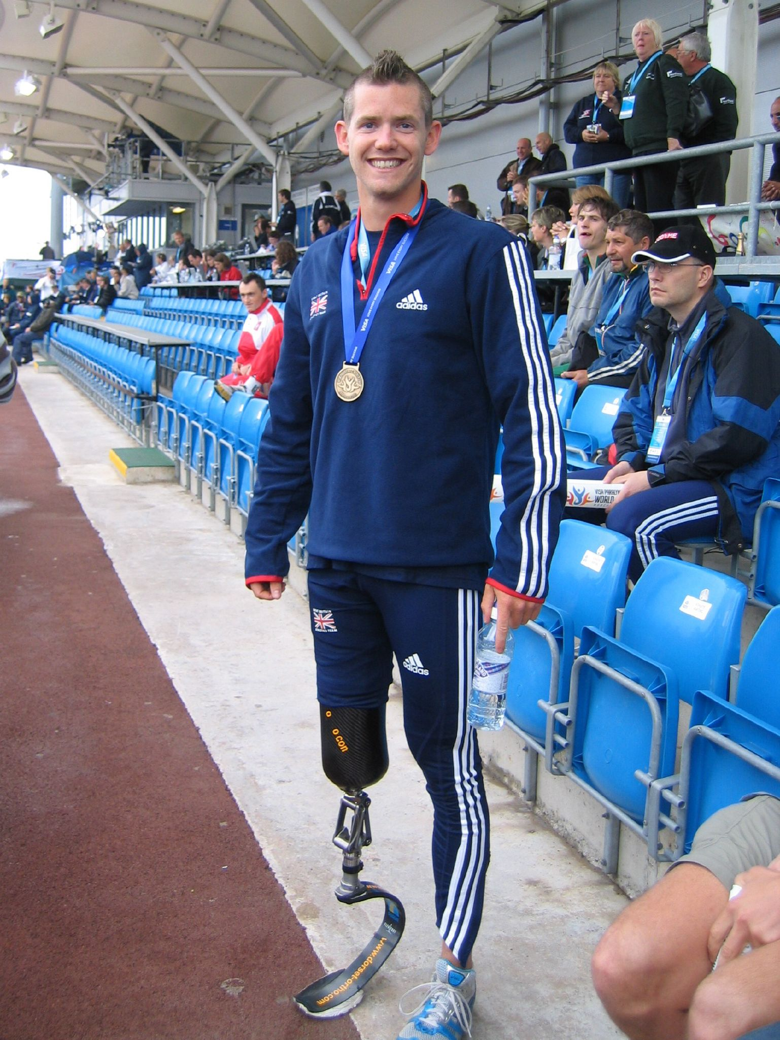 John McFall (born 25 April 1981), a Cardiff-based British Paralympic sprinter, after winning gold in the T42 (single amputation above the knee) 200 metres race at the 2007 Visa Paralympic World Cup in Manchester, England, in a competition record time of 26.84 seconds.